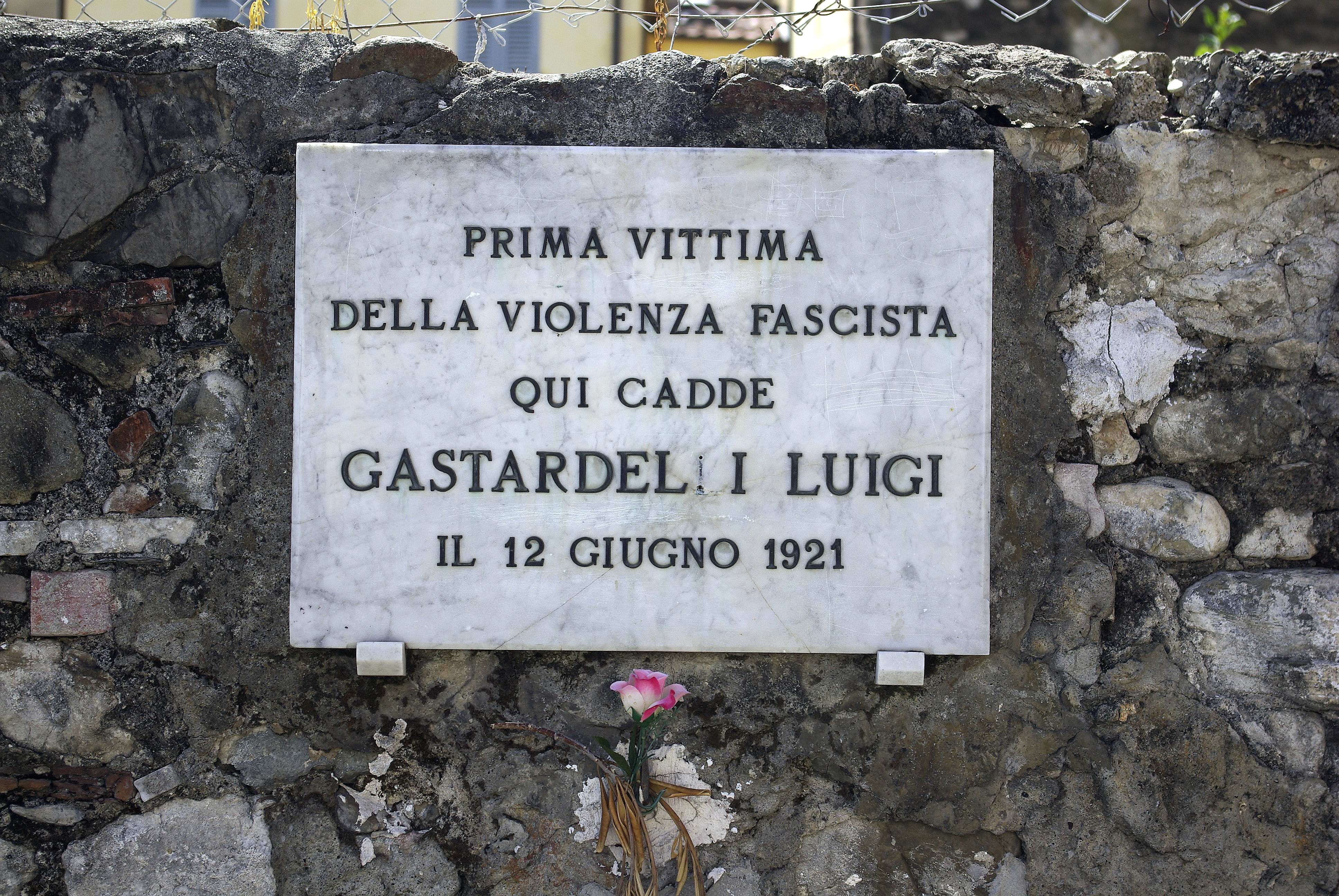 Plaque in memory of Luigi Gastardelli in Sarzana (Liguria, Italy), first men killed by fascist during "Fatti di Sarzana". The text is : First victim of the fascist violence which killed Luigi Gastardelli on 12th june 1921.